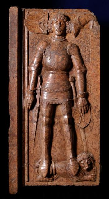 Stibor (Scibor, Czibor) the younger's grave monument (died 1434) in Budapest History Museum